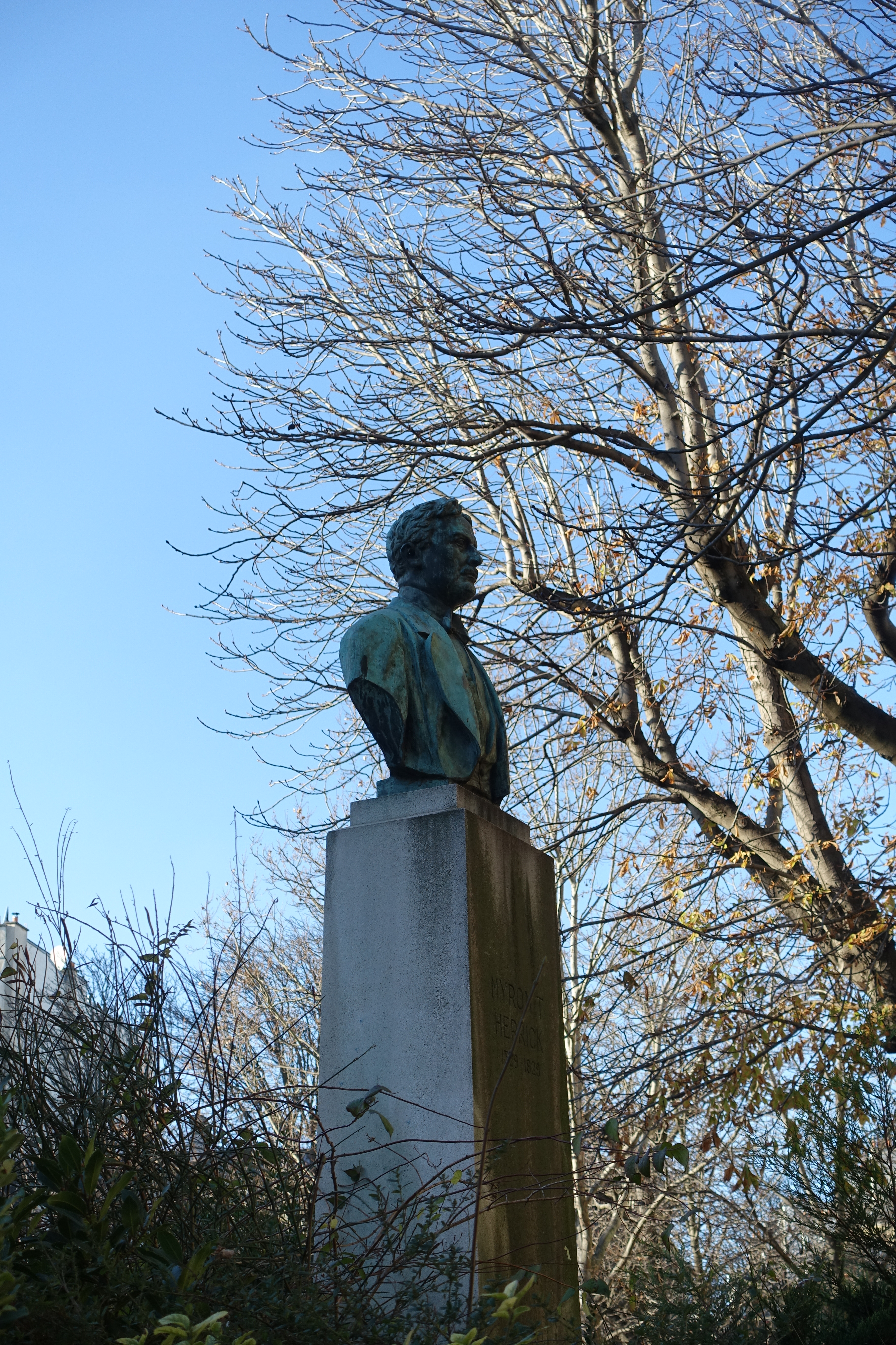 Square Thomas Jefferson @ Paris